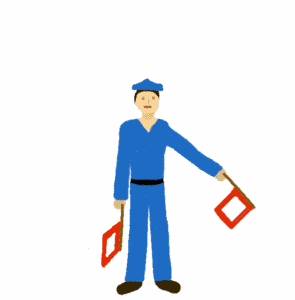 Letter G of the nautical semaphore flag signalling system Source: Martin Hawlisch (User:LosHawlos) My own drawing done in gimp First uploaded to de: in jun-2004